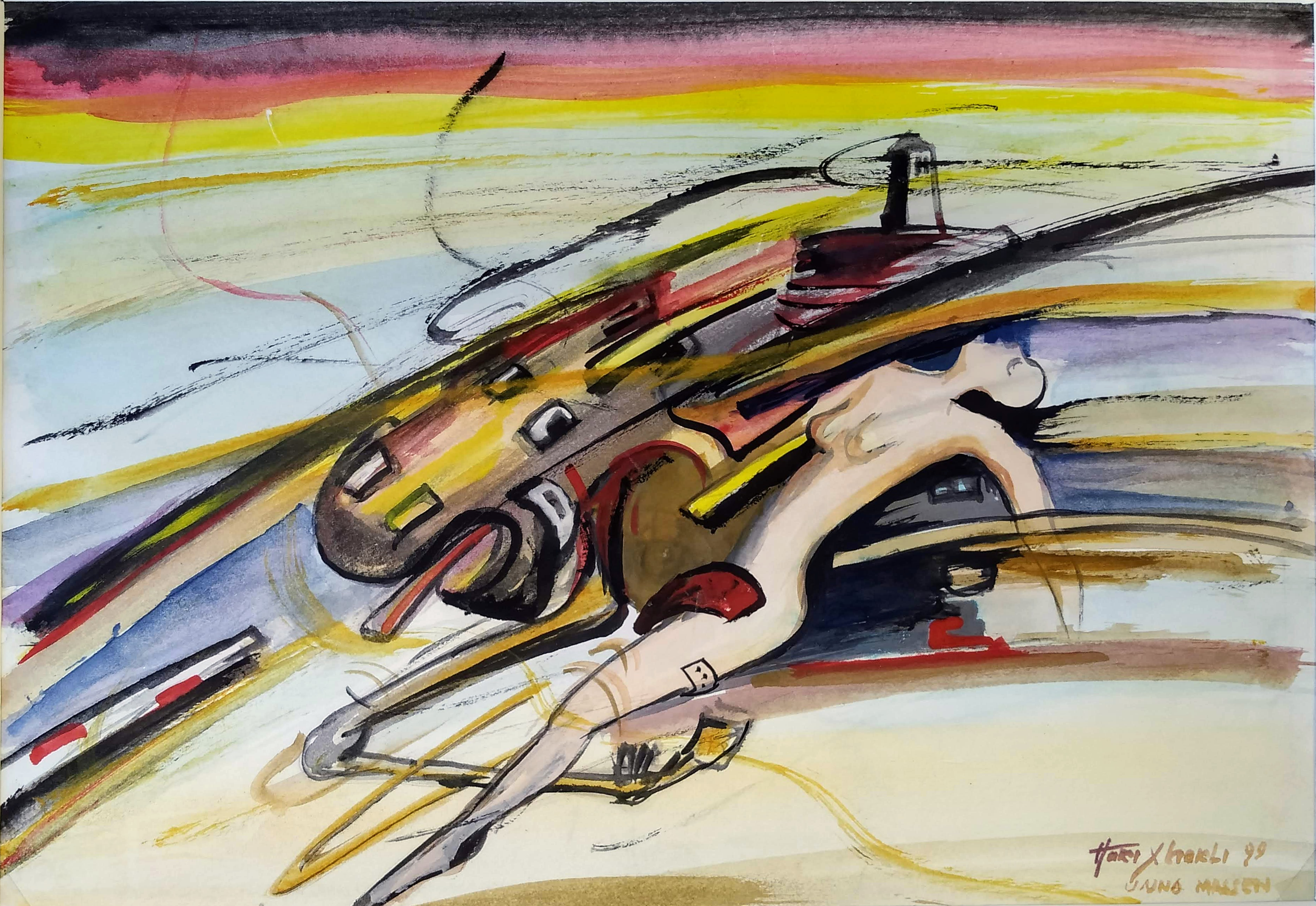 Painting named Apocalypse by Haki Xhakli